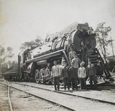 A Chinese-made steam locomotive "Heping" (meaning "peace") Type, number 1001, in 1958.Note made in Tangshan, see China Railways QJ, most others made in Datong